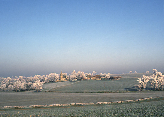 A scan from a medium-format transparency which I took at Creeton, Lincolnshire, England one winter morning in the late 1990s. It shows the Glen Valley, Creeton church (St Peter's) and Manor Farm in hoar frost. This scan is in the Public Domain (however, I retain ownership and copyright of the original transparency and any higher-resolution scans derived from it). If you use the photo outside Wikipedia, a photographer's credit (Simon Garbutt) would be appreciated.